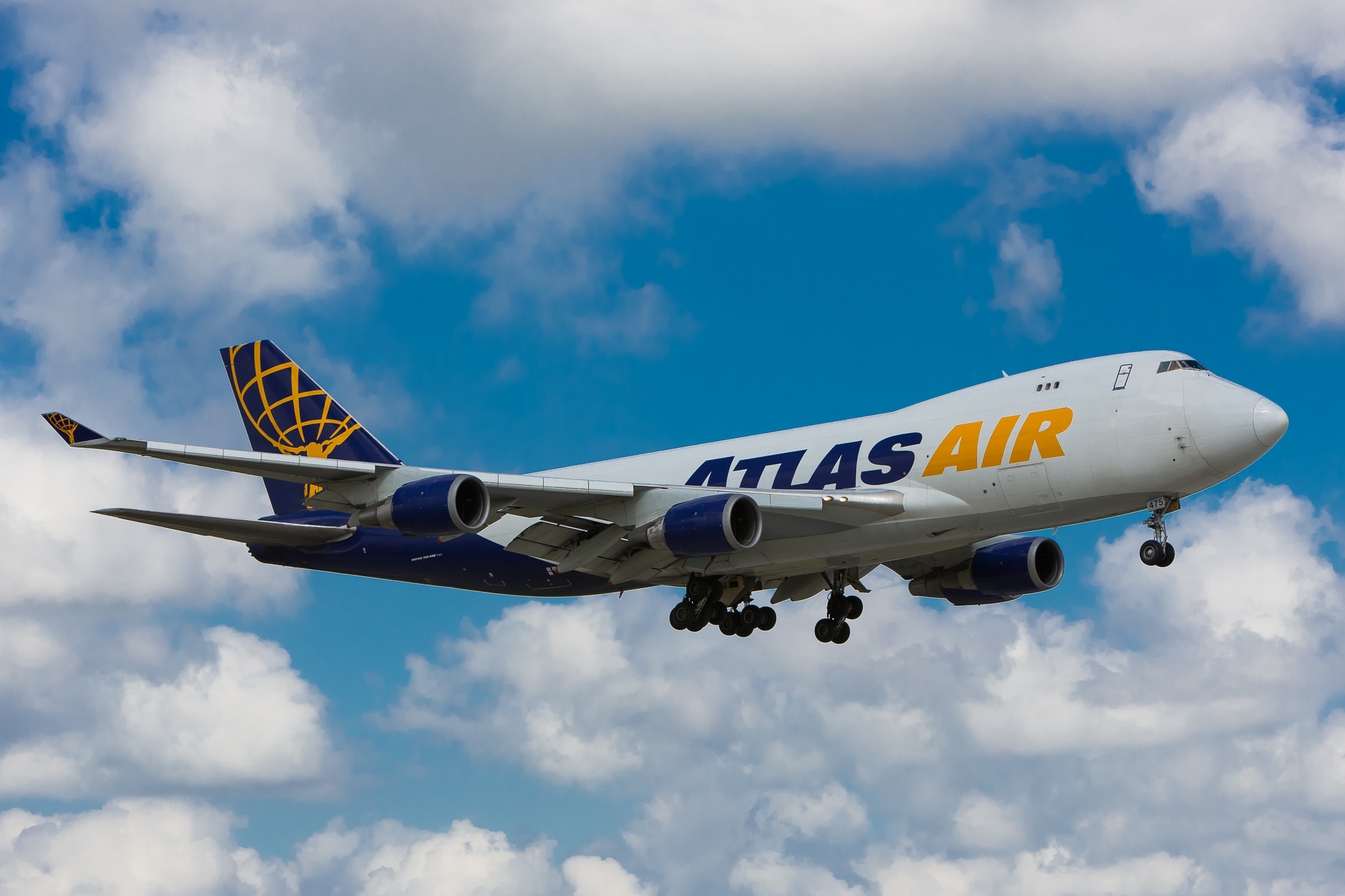 Serial number: 29252 LN:1165 Type 747-47UF First flight date: 10/07/1998 Engines: 4 x GE CF6-80C2B5F